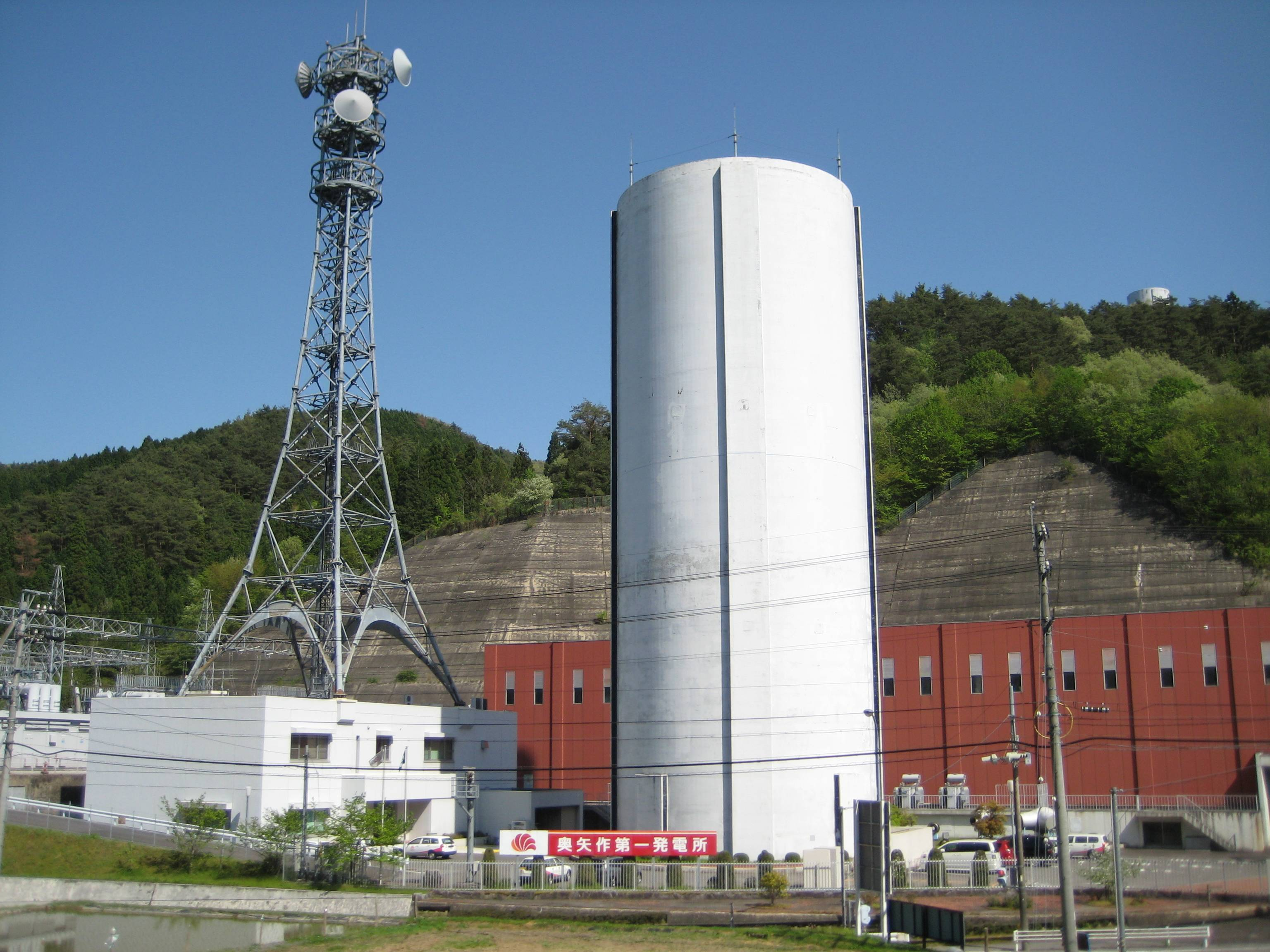 Okuyahagi I power station.